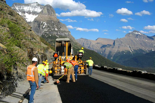 Going-to-the-Sun Road, construction crew paving around milepost 33